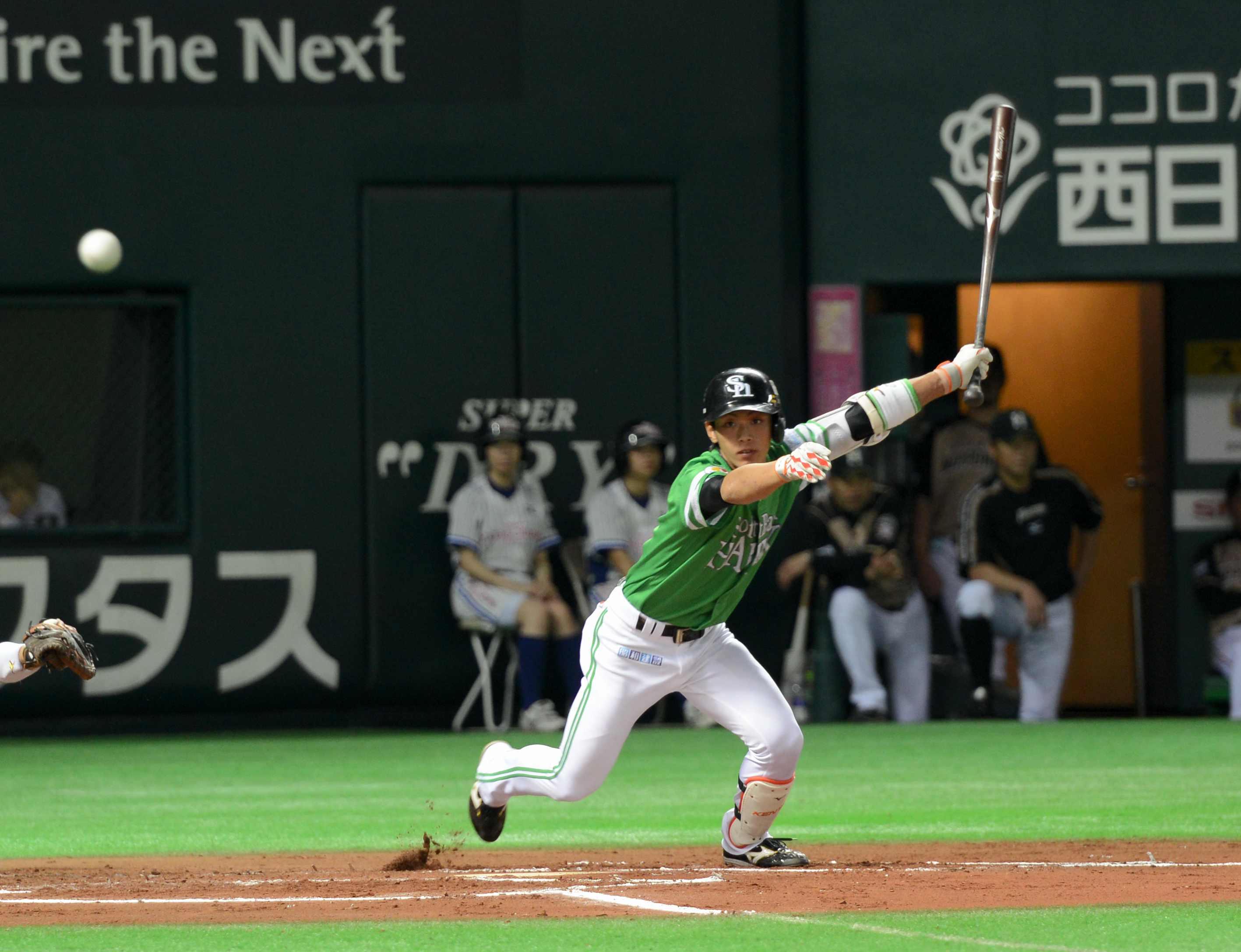 Kenta Imamiya, infielder of the Fukuoka SoftBank Hawks, at Fukuoka Dome.